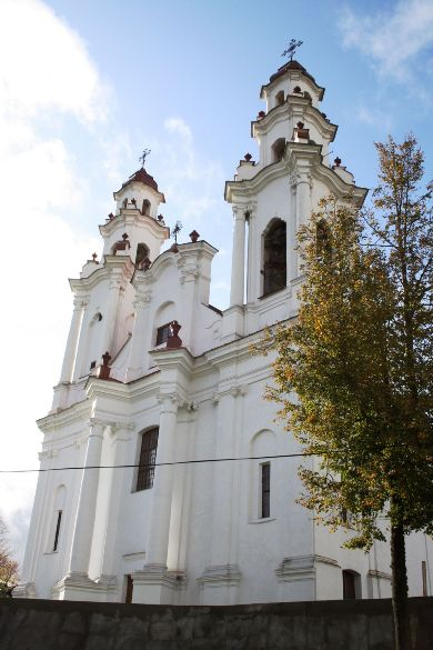 Pasiene Saint Dominic Roman Catholic Church